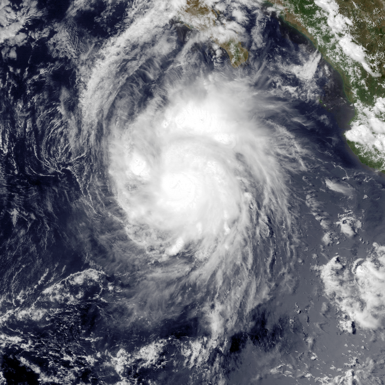 Hurricane Hernan on July 27, 2014